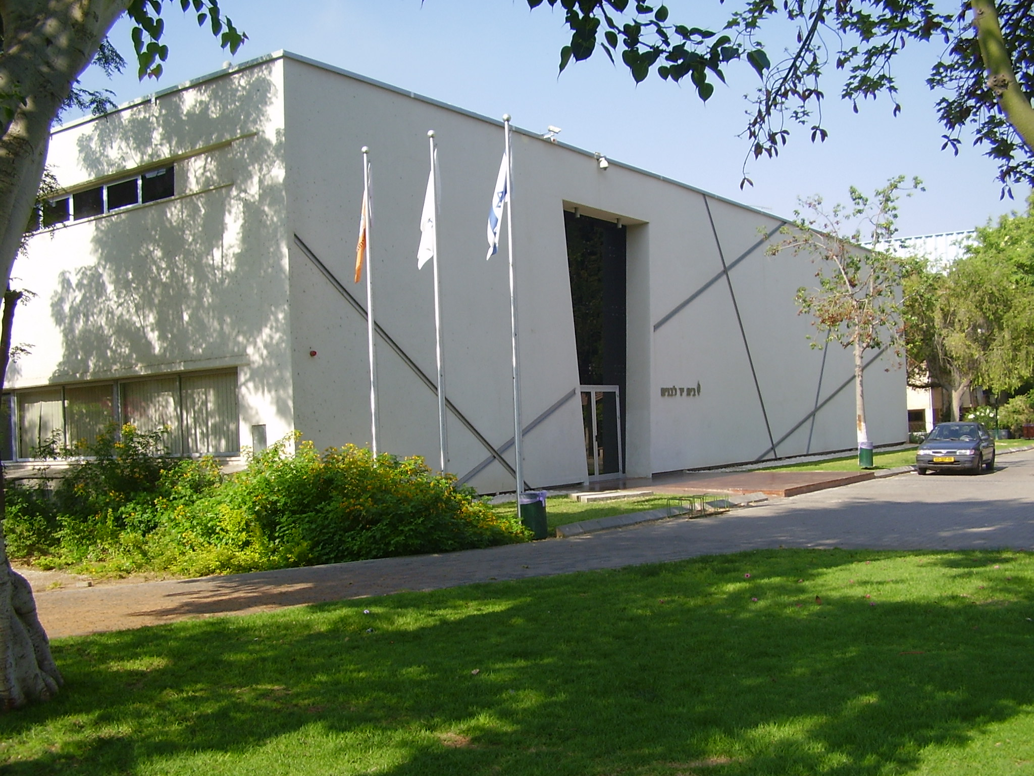 Yad Labanim House in Rehovot